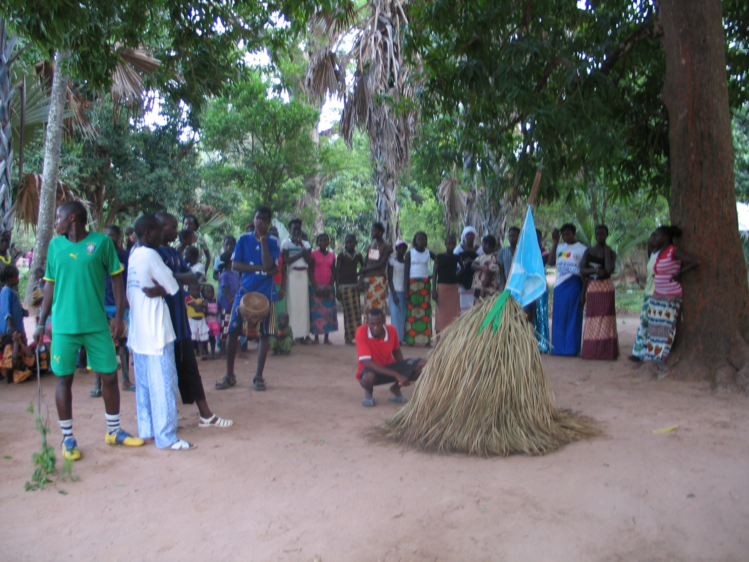 The Kumpo, the Samay and the Niasse are three mythological persons of the Diola culture in the Casamance (Senegal)